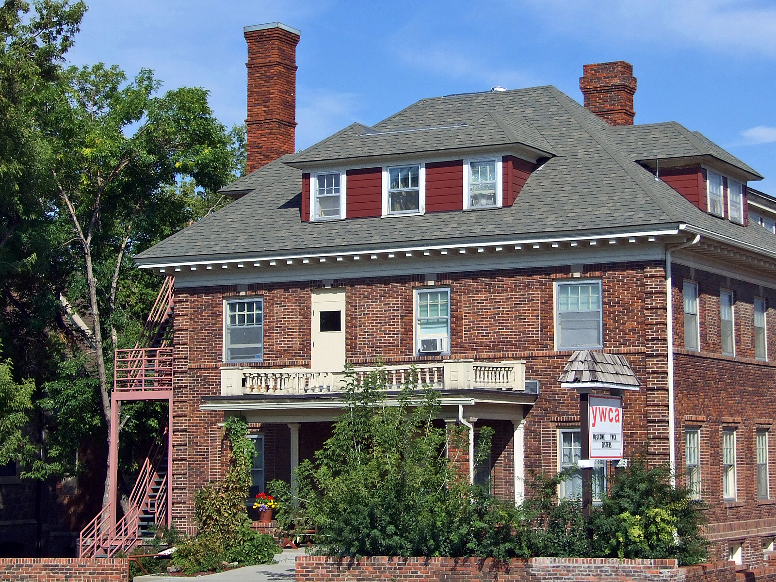 Young Women's Christian Association (Independent)Only seven years after organizing, the Helena chapter of the Young Women’s Christian Association, Independent, opened this residential building for the city’s young working women in 1918. Founded by women from most of Helena’s churches and synagogues, the local chapter is today the only Independent YWCA in the nation, welcoming both Christian and non-Christian members. Although the chapter chose not to join the national organization, it too strived to improve conditions for the working woman. In a time of dramatic change in traditional roles, this building welcomed young women with safe housing, and with practical classes such as typewriting and sewing machine operation, and also more intellectual courses such as astronomy and physiology. Adult recreational sports, child care, and children’s day camps also were organized. The building was designed by Chester H. Kirk and built of locally made bricks from the Kessler Brick Yard by Frank Jacoby and Son. It combines decorative detailing common to both Craftsman and Classical styles of architecture. This includes simulated quoining in brick at the corners, a soldier course that wraps around the building between the basement and first floor levels, a brick belt course at the sill level of the second floor windows, and stacked brick window surrounds. Public rooms occupy the first floor interior, with 43 bedrooms—all finished with maple, birch and white pine—on the upper floors.